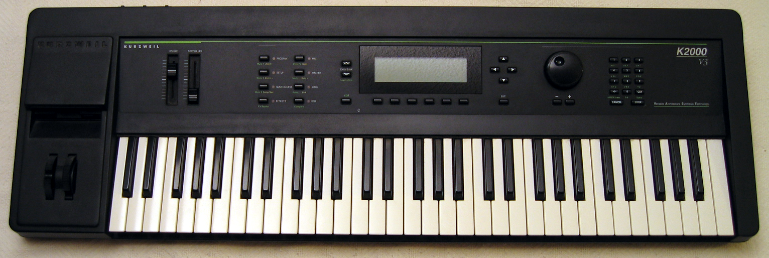 A picture of a Kurzweil K2000 synthesizer.